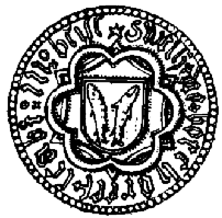 image from the 1894 edition of the long defunct Taxandria magazine.